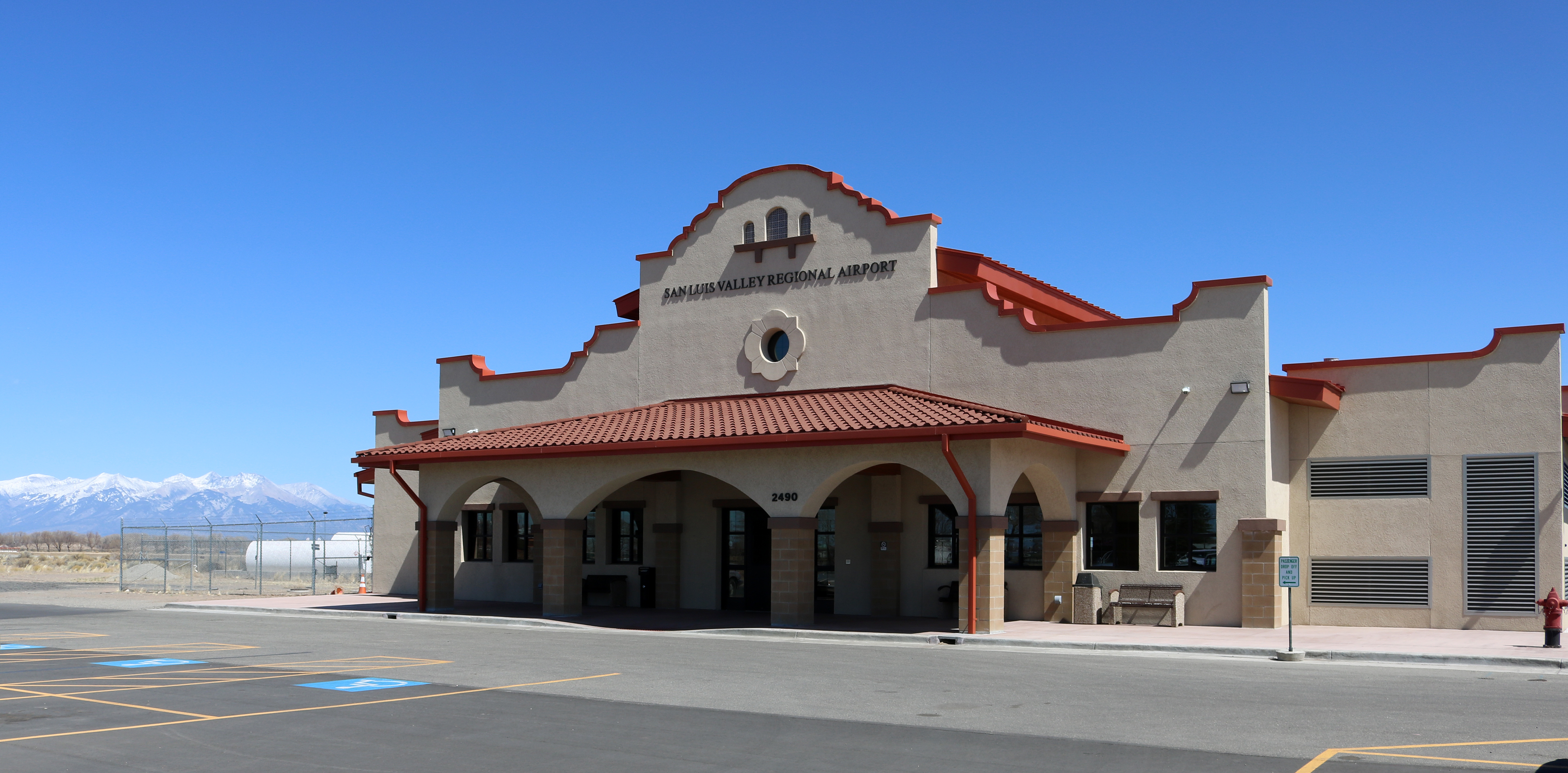 The terminal building at the San Luis Valley Regional Airport, located at 2490 State Avenue in Alamosa, Colorado.